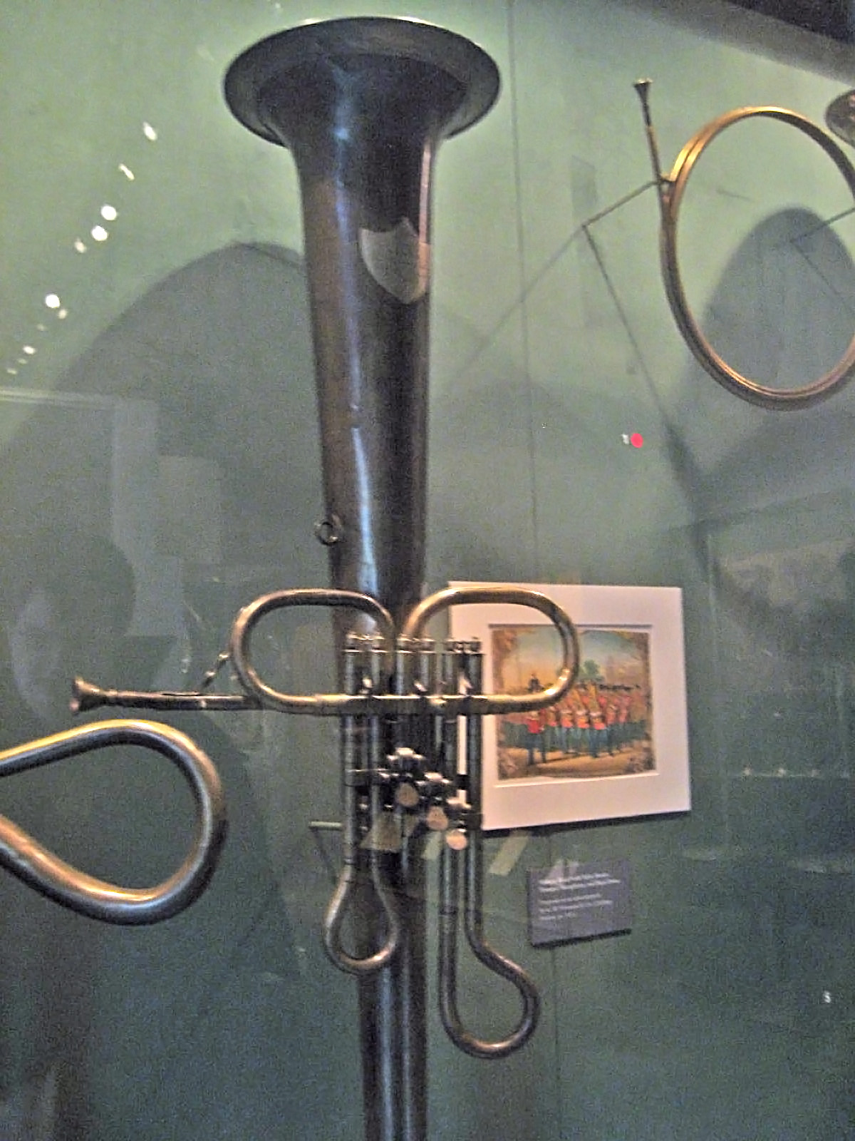 Ophicleide built by Leopold Uhlmann, Vienna, 1838-40.